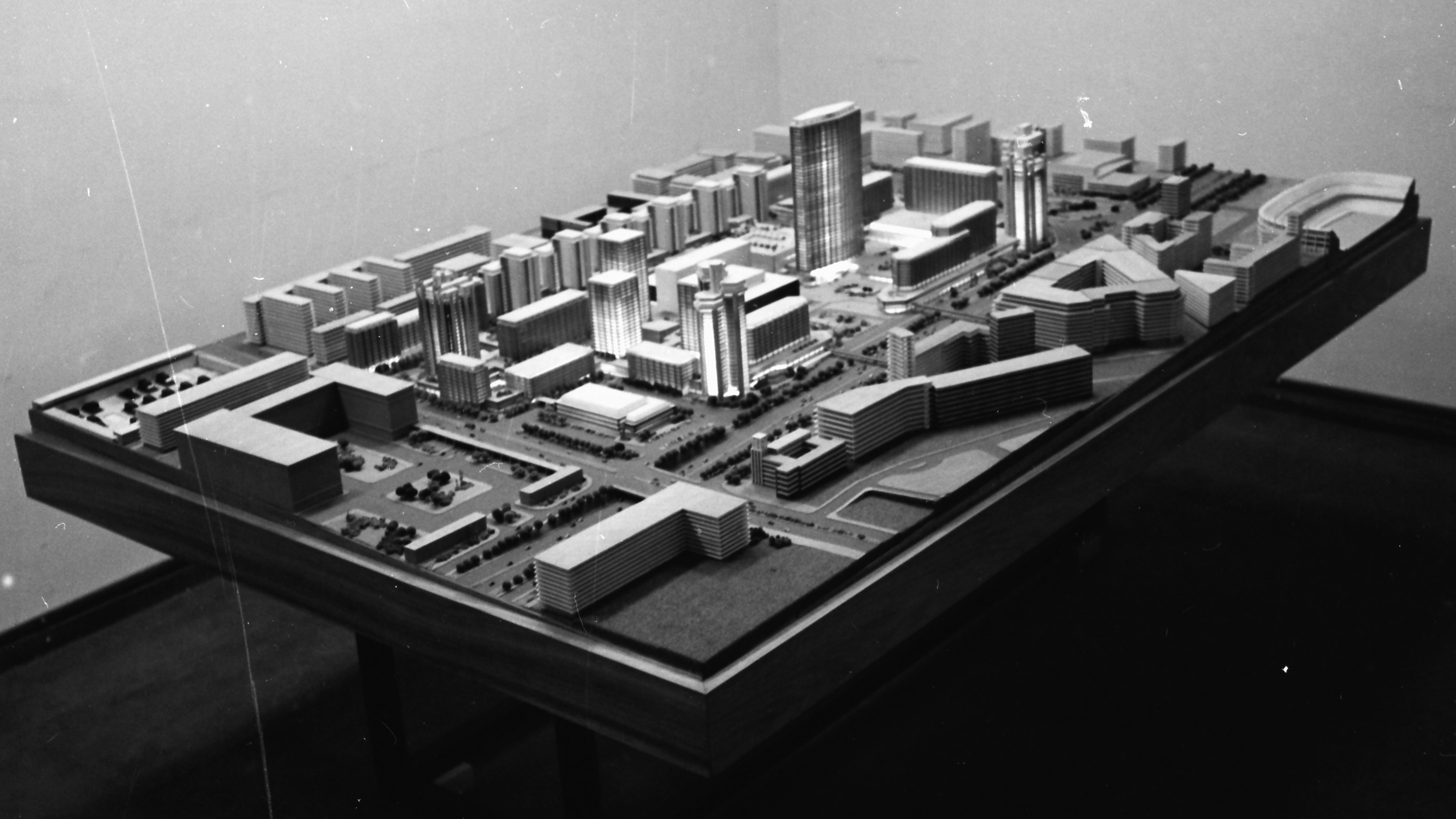 Aplin_Madrid_June1967_0010